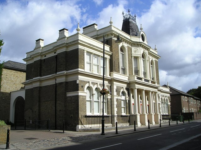 Walthamstow Old Town Hall Built in 1878 and replaced by the present town hall in Forest Road in 1941. Later used as part of Connaught Hospital. Restored in 1994.